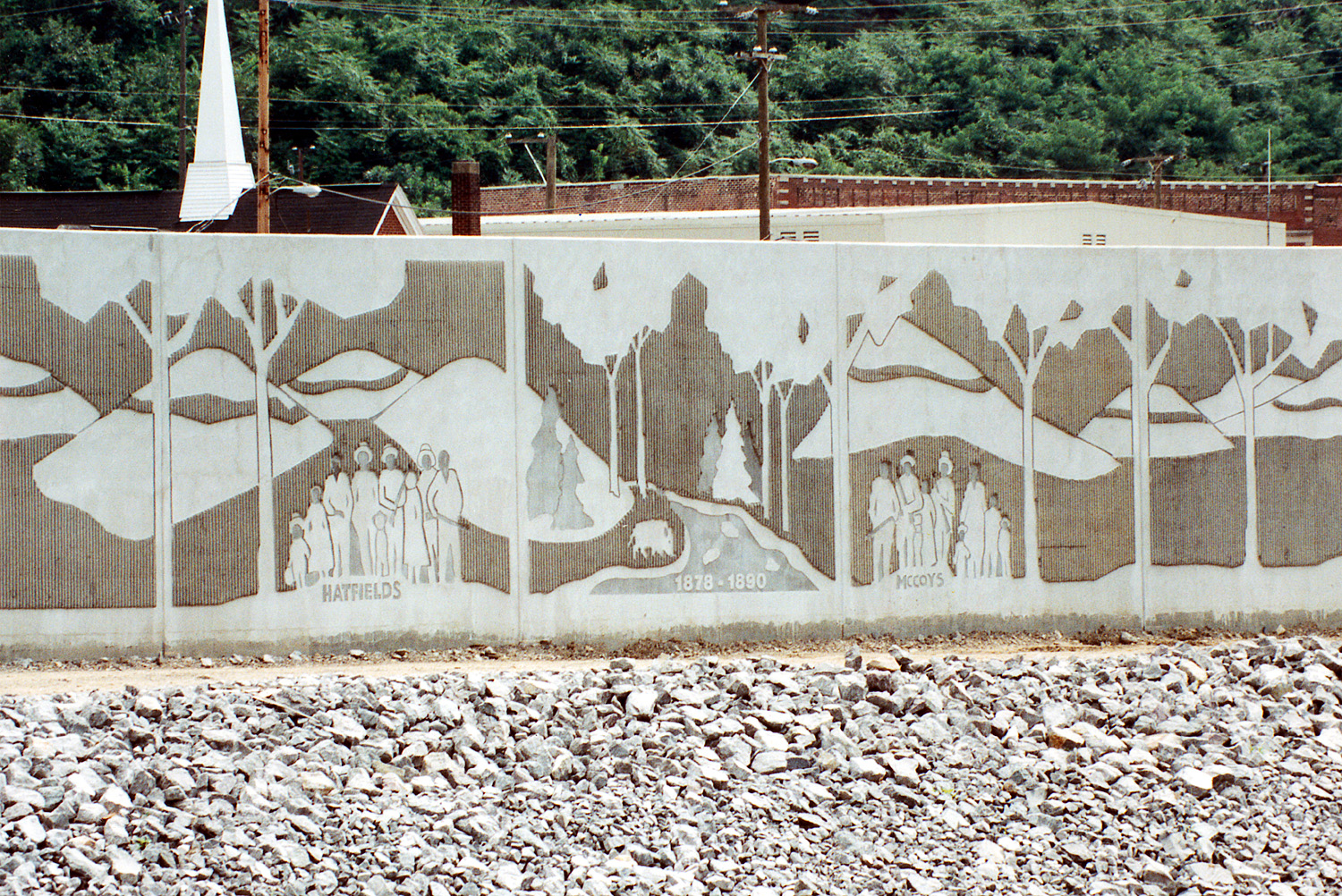 Close-up of a section of the floodwall along the Tug Fork River at Matewan, West Virginia, USA. The U.S. Army Corps of Engineers constructed levees and floodwalls along the river to protect the town. The wall depicts the families involved in the notorious Hatfield-McCoy feud of 1878–1891.